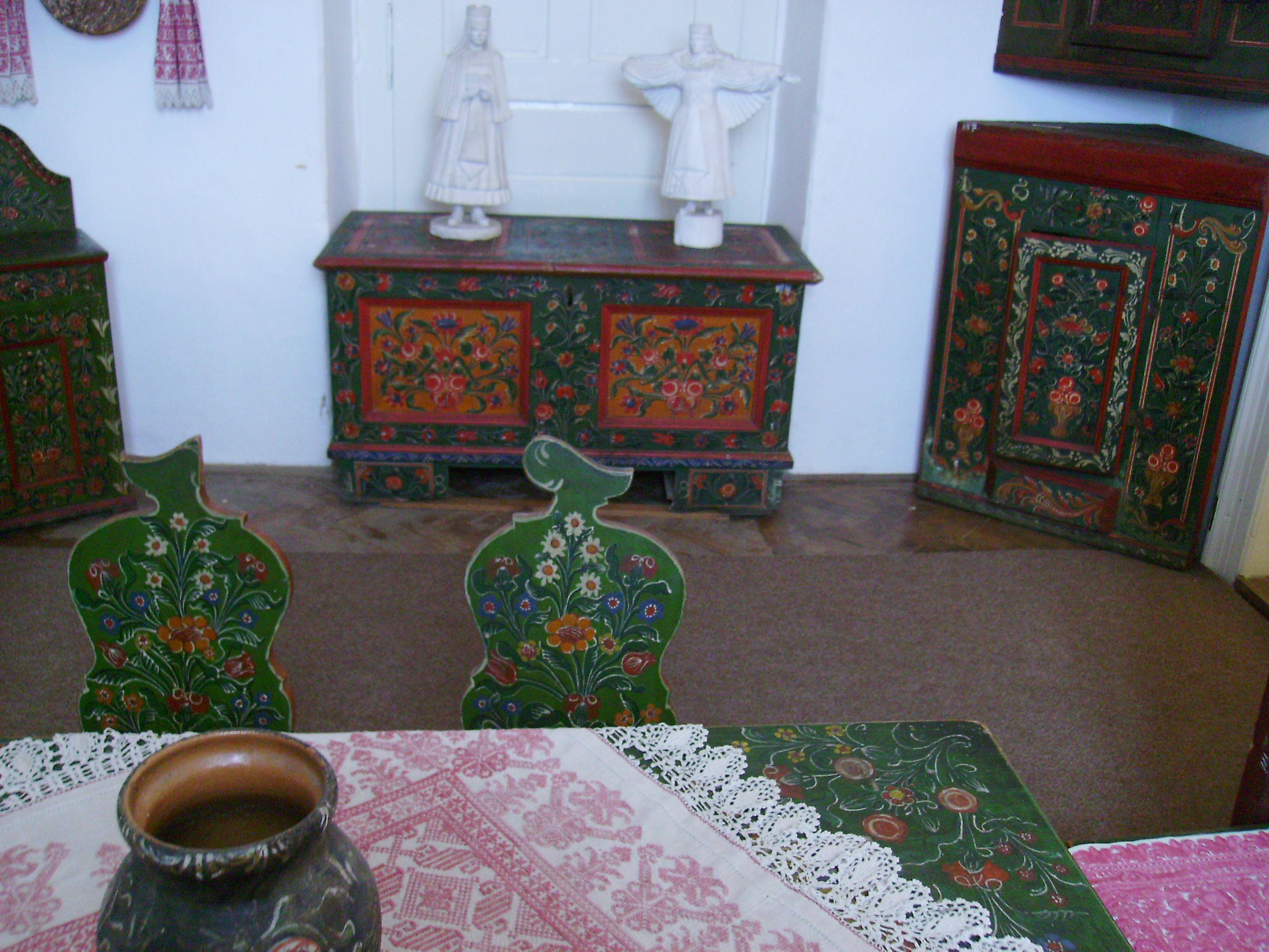 Traditional furniture of Rimetea, Transylvania, Romania. Seen in the local ethnographic museum.